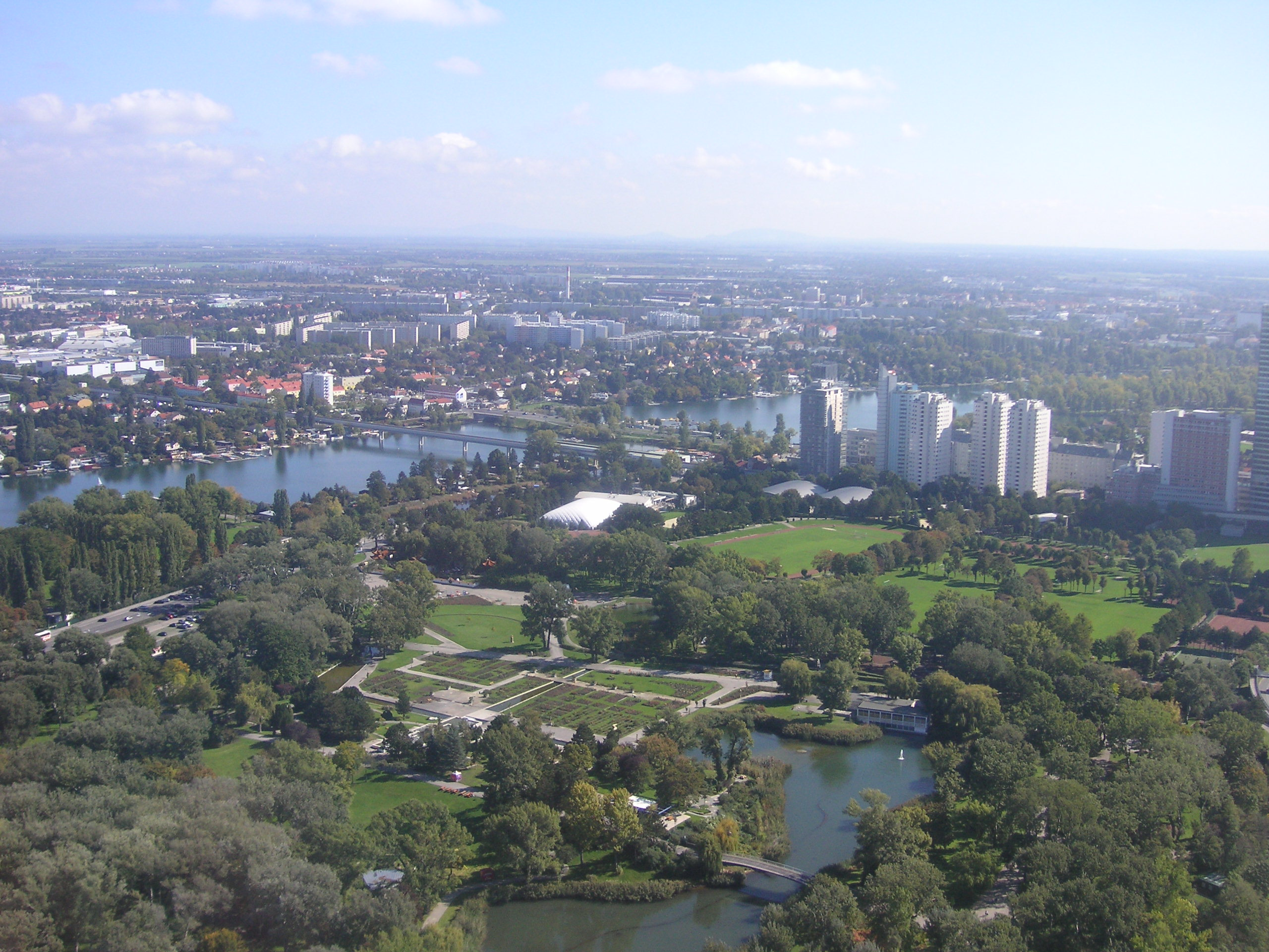 Donaustadt, viewed from the Donauturm, built in 1964. In the middle the Alte Donau can be seen.